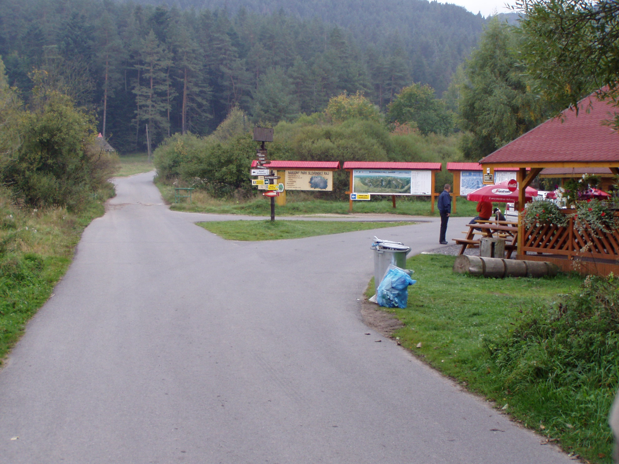 Podlesok